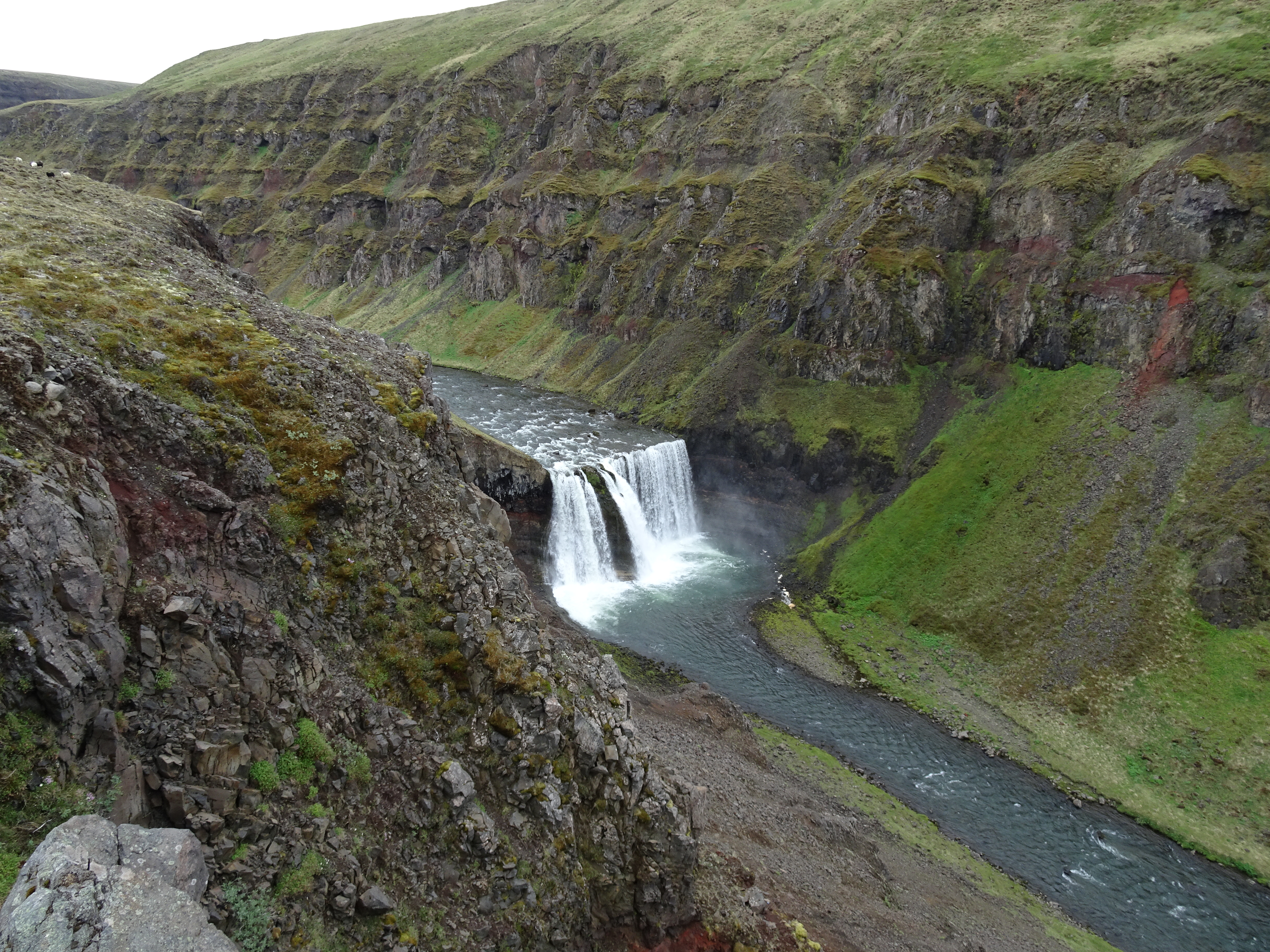 The Dalsfoss, a waterfall in the Vatnsdalsá river in Northern Iceland.